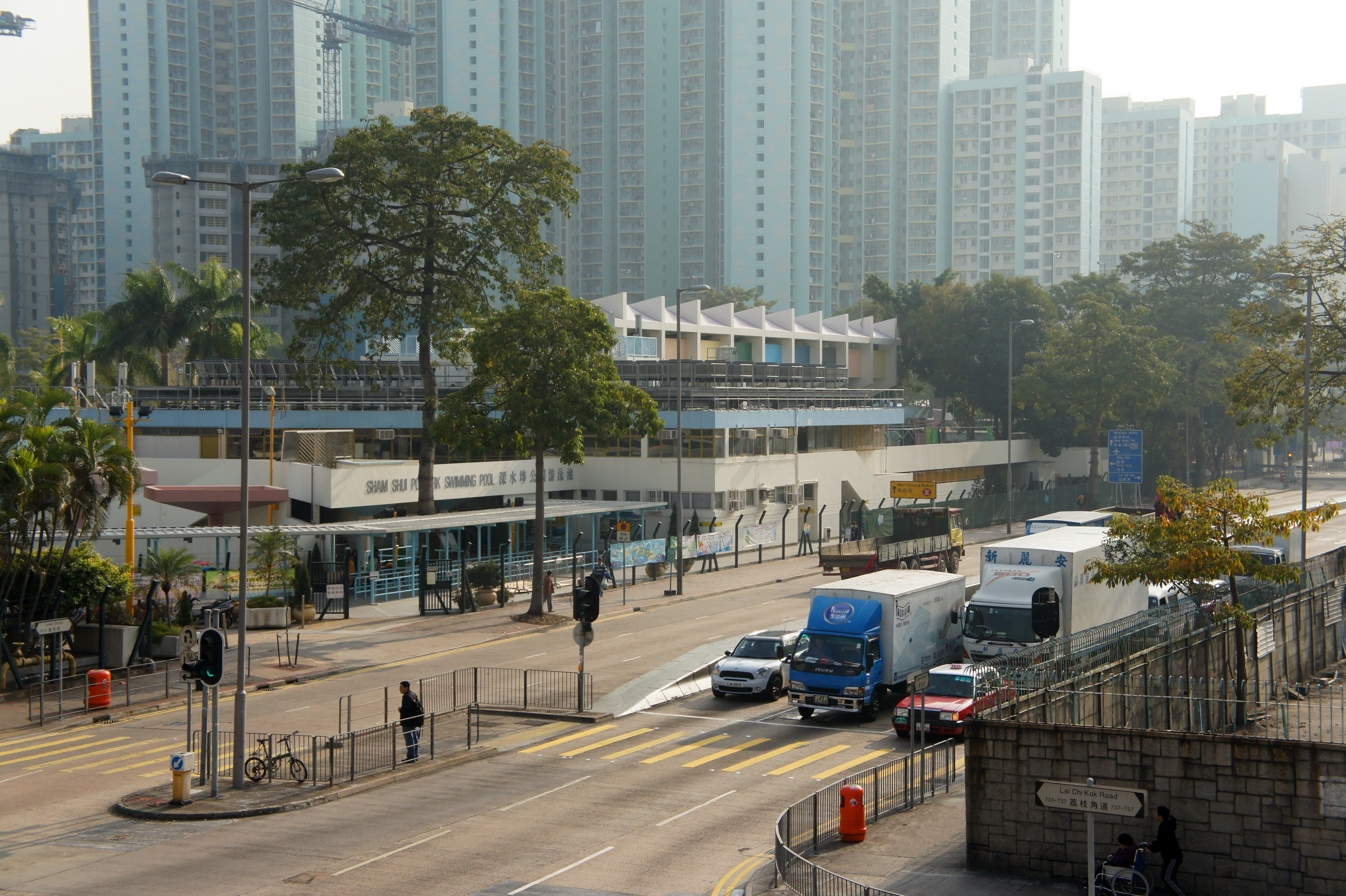 Sham Shui Po Park Swimming Pool, Kowloon, Hong Kong.